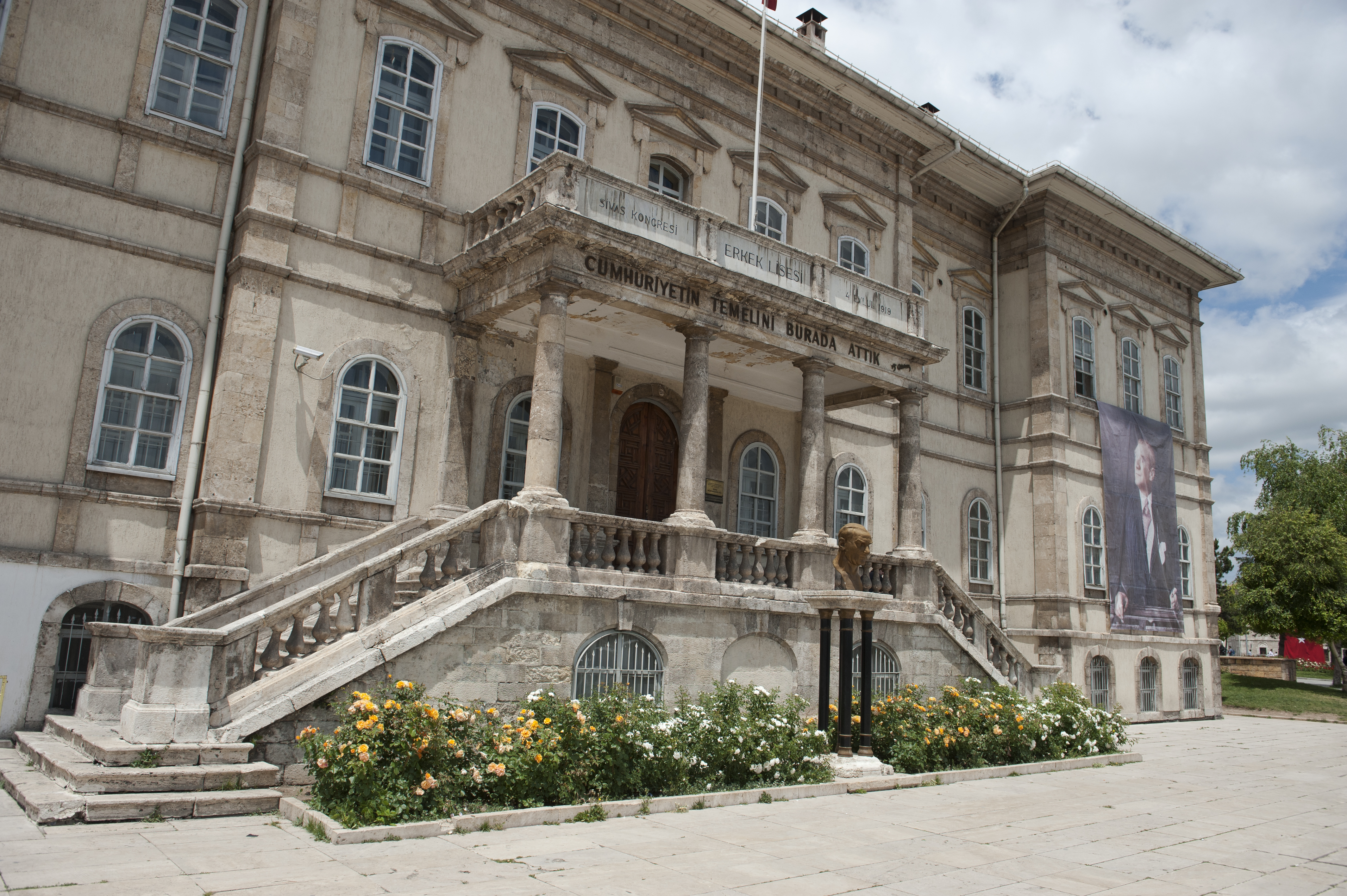 The fron ot the "Erkek Lisesi" (Boy's high school) where the Turkish National Movement gathered 4–11 September 1919 and confirmed Atatürk's position as chair of the executive committee of the national resistance. The building was a school at the time.